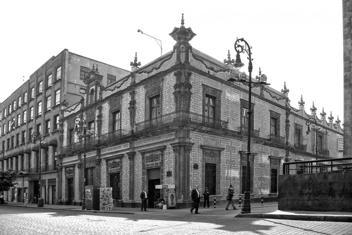 Photo of the Casa de los Azulejos in the 20th century, Mexico City